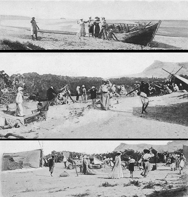 Photos taken on the day the steamer Chodoc sailing back from the Far East shipwrecked off Cape Guardafui in July 1905. The top photograph shows some of the 600 passengers and crew in front of one of the local Somali boats used in the rescue. The beached Chodoc is visible in the background (center left). The other photos shows scenes on the beach soon after the shipwreck. The passengers were picked up two days later by the Russian transport ship Smolensk. The photos, most likely taken by a passenger or a crewman, were published in the French magazine L'Illustration.